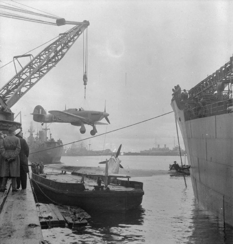 Royal Air Force Operations in Malta, Gibraltar and the Mediterranean, 1940-1945. A Hawker Sea Hurricane Mark I of the Merchant Ship Fighting Unit is craned aboard a Catapult Armed Merchant (CAM) ship at Gibraltar.